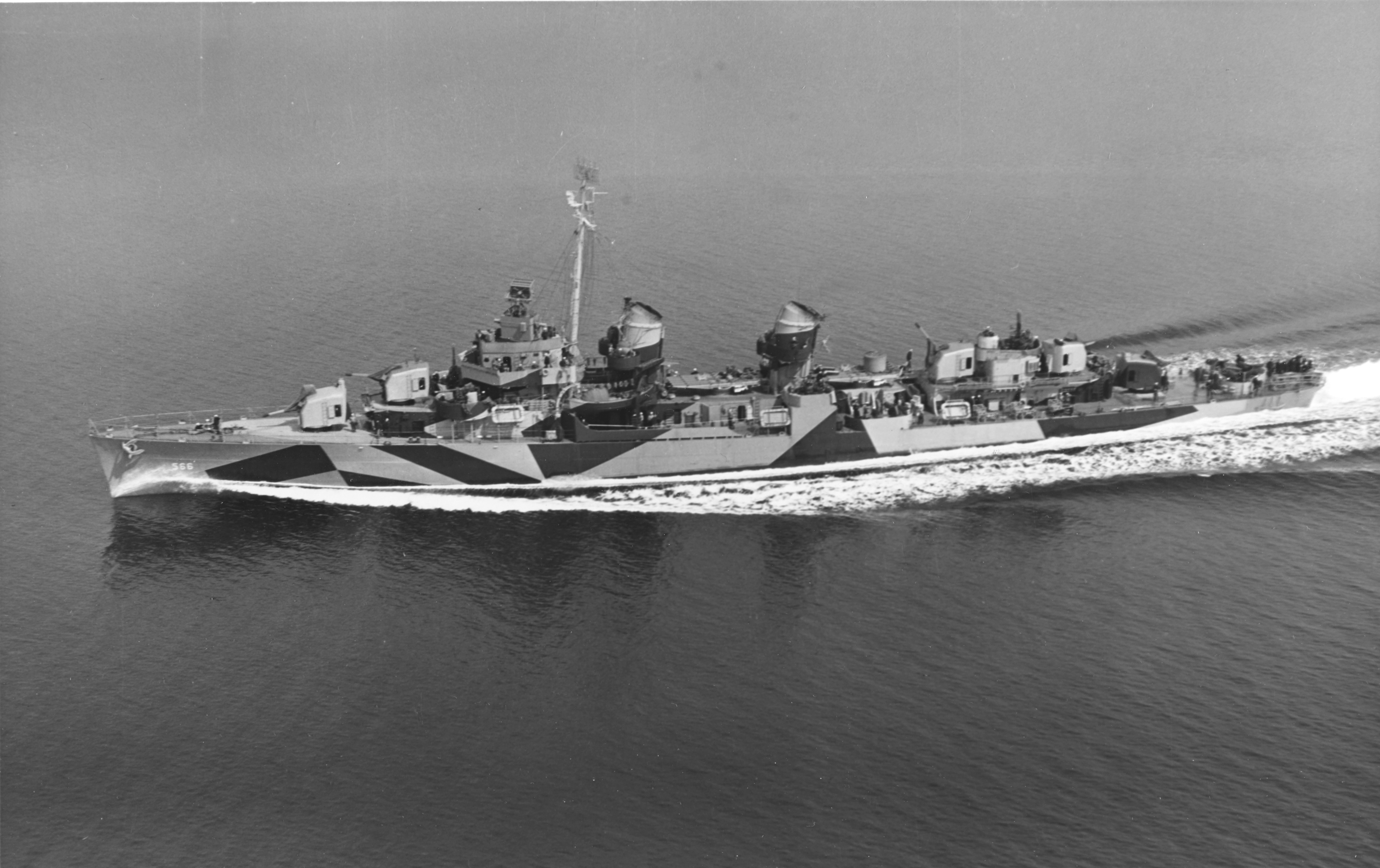 The U.S. Navy destroyer USS Stoddard (DD-566) off Vashon Island, in Puget Sound, Washington (USA), on 21 April 1944. Stoddard was built by the Seattle-Tacoma Shipbuilding Corporation and commissioned on 15 April. The ship is painted in camouflage Measure 31, Design 16D.